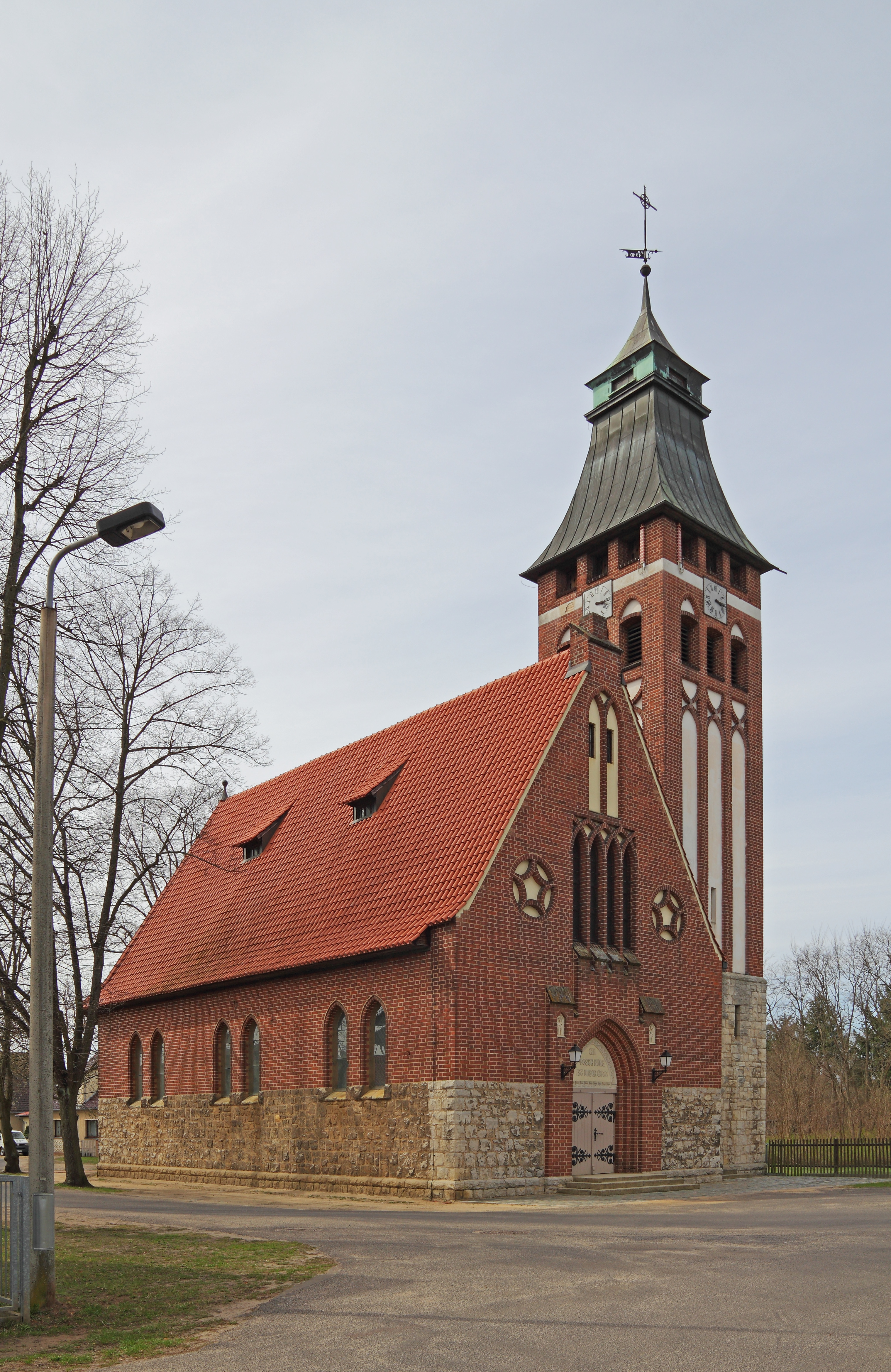 Luther Church in Fürstenwalde (Spree), Brandenburg, Germany